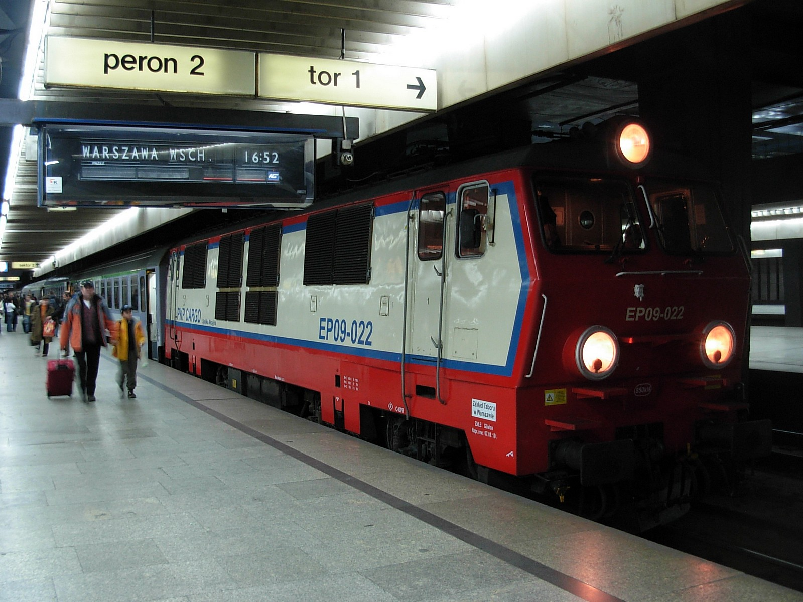 PKP EP-09 series locomotive arriving at Warszawa Centralna terminal from Krakow.